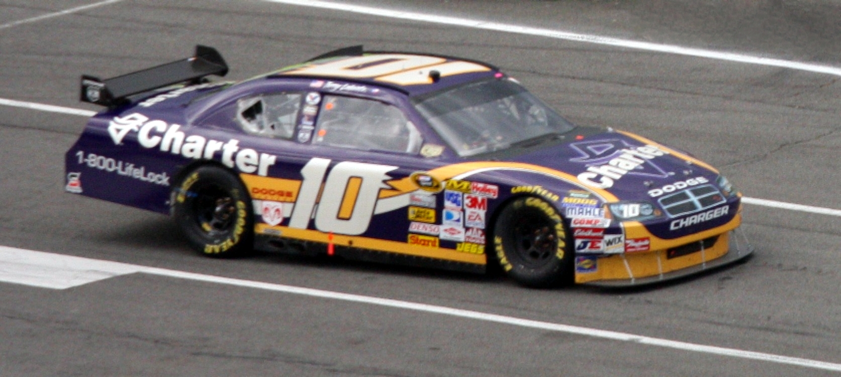 Paul Menard (#15) Terry Labonte (#10)